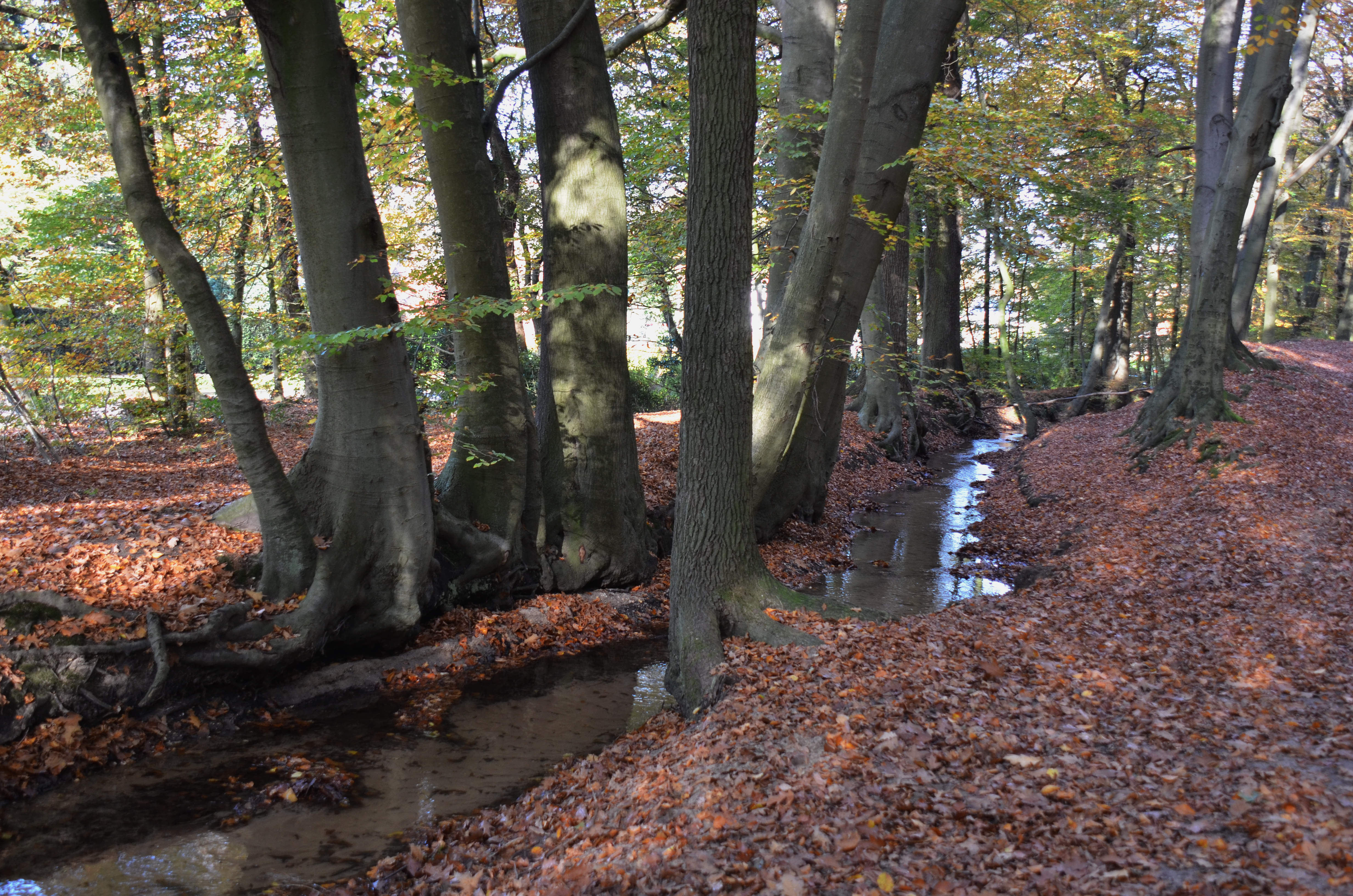 Velp-Beekhuizen: Mighty beeches along this seeping stream